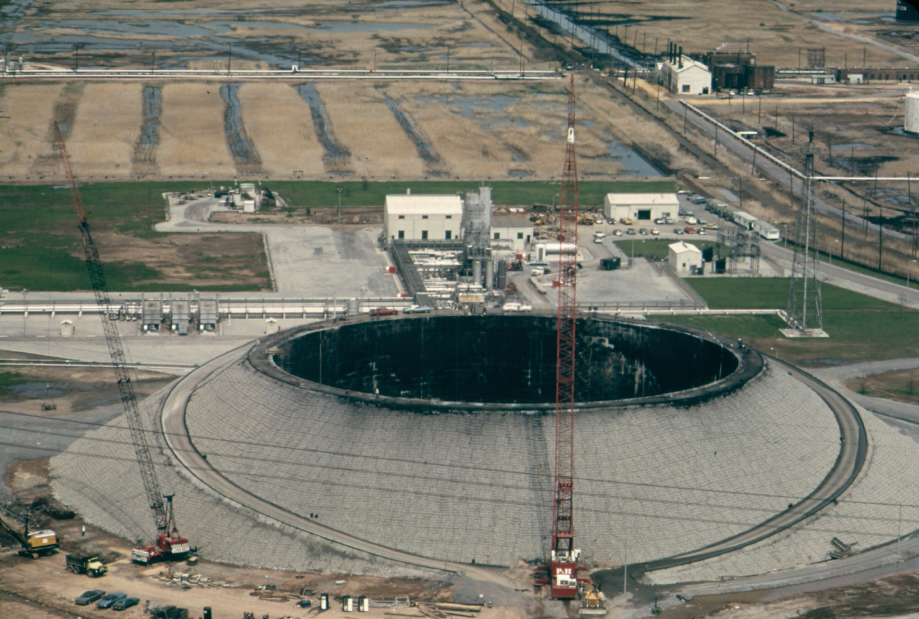 A photograph of a gas tank at which a disaster occurred, taken in April 1973. This photo specifically is color-adjusted to be less red and significantly more natural, using the original here File:THE TEXAS EASTERN GAS TANK THAT KILLED 41 WORKMEN WHEN IT IMPLODED IN JANUARY 1973, IS NOW BEING REBUILT OVER THE... - NARA - 551983.jpg This is a retouched picture, which means that it has been digitally altered from its original version. Modifications: Cropped photo, increased brightness, and made less red. The original can be viewed here: THE TEXAS EASTERN GAS TANK THAT KILLED 41 WORKMEN WHEN IT IMPLODED IN JANUARY 1973, IS NOW BEING REBUILT OVER THE... - NARA - 551983.jpg: . Modifications made by Khu'hamgaba Kitap.